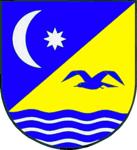 Coat of arms of the German municipality Steinberg in Schleswig-Holstein, Germany.